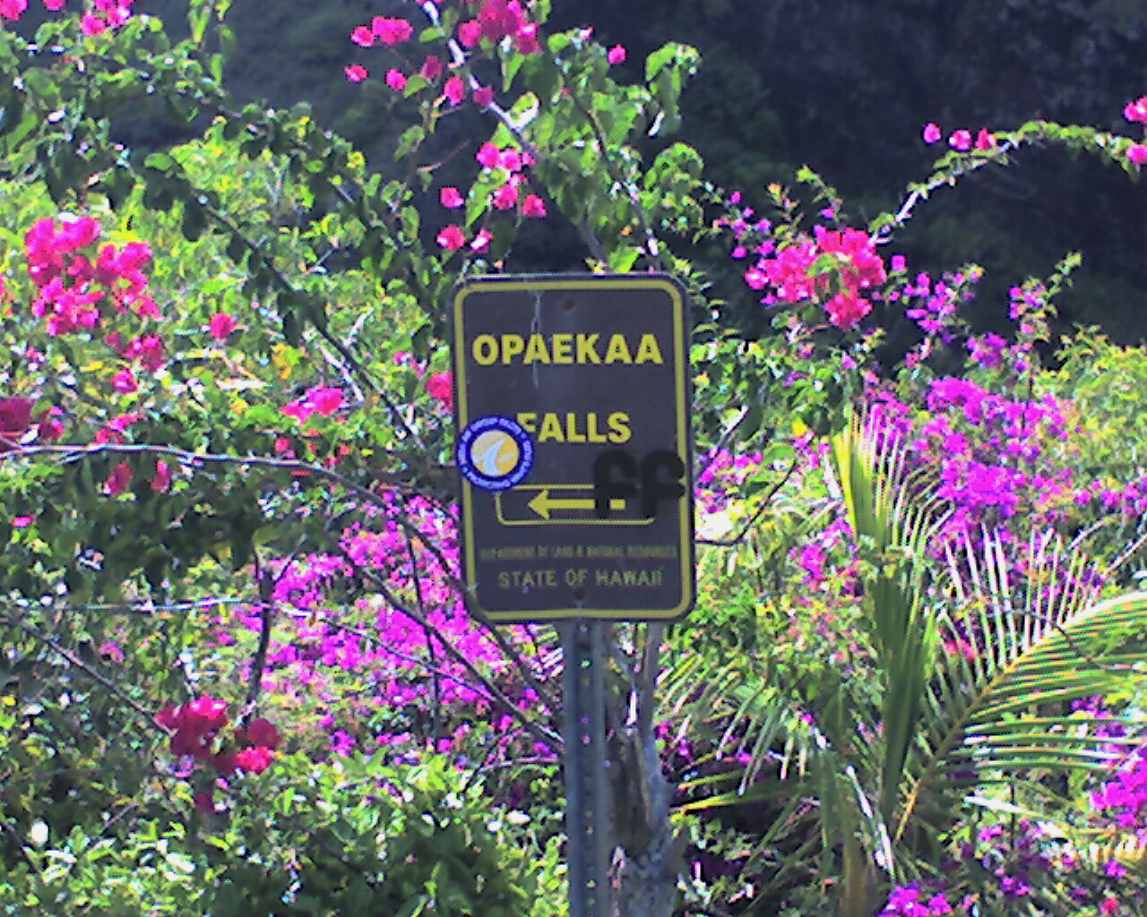 Highway Sign for Opaeka'a Falls, Kauai, Hawaii, June 2008